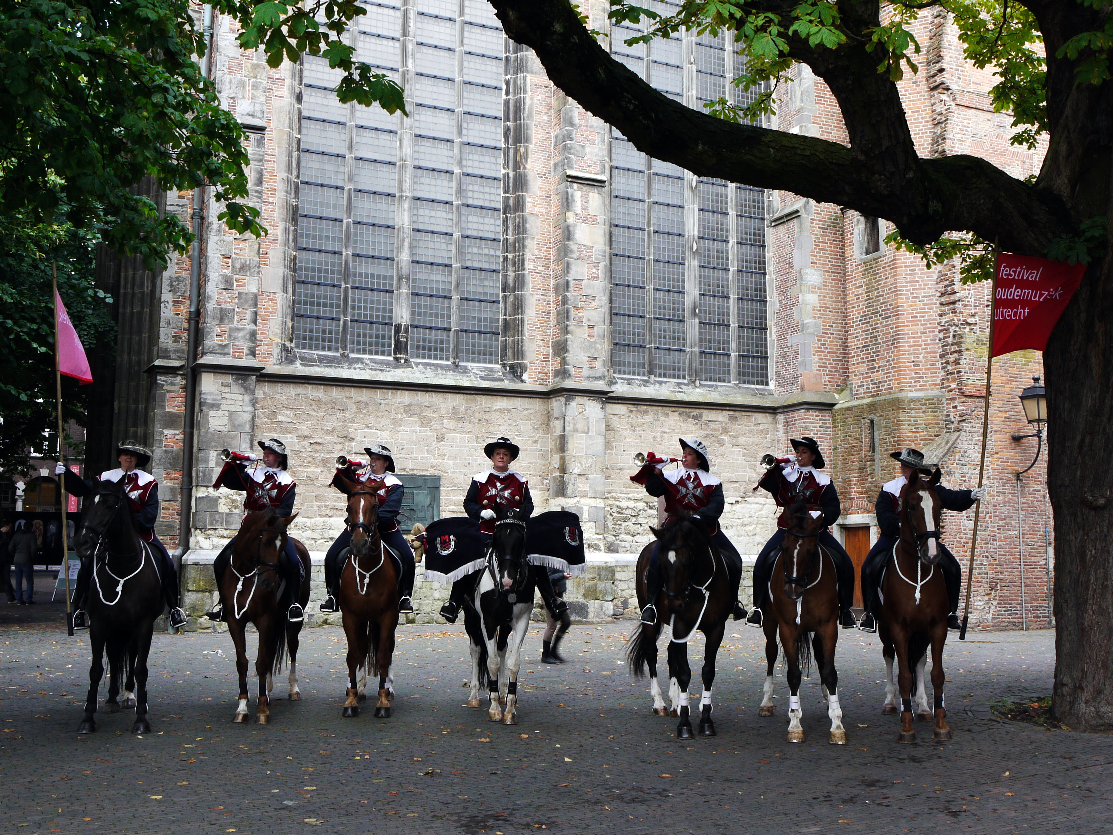 Street performance of trumpeters at the Festival Oude Muziek 2010, at Domplein, Utrecht (city):Utrecht.